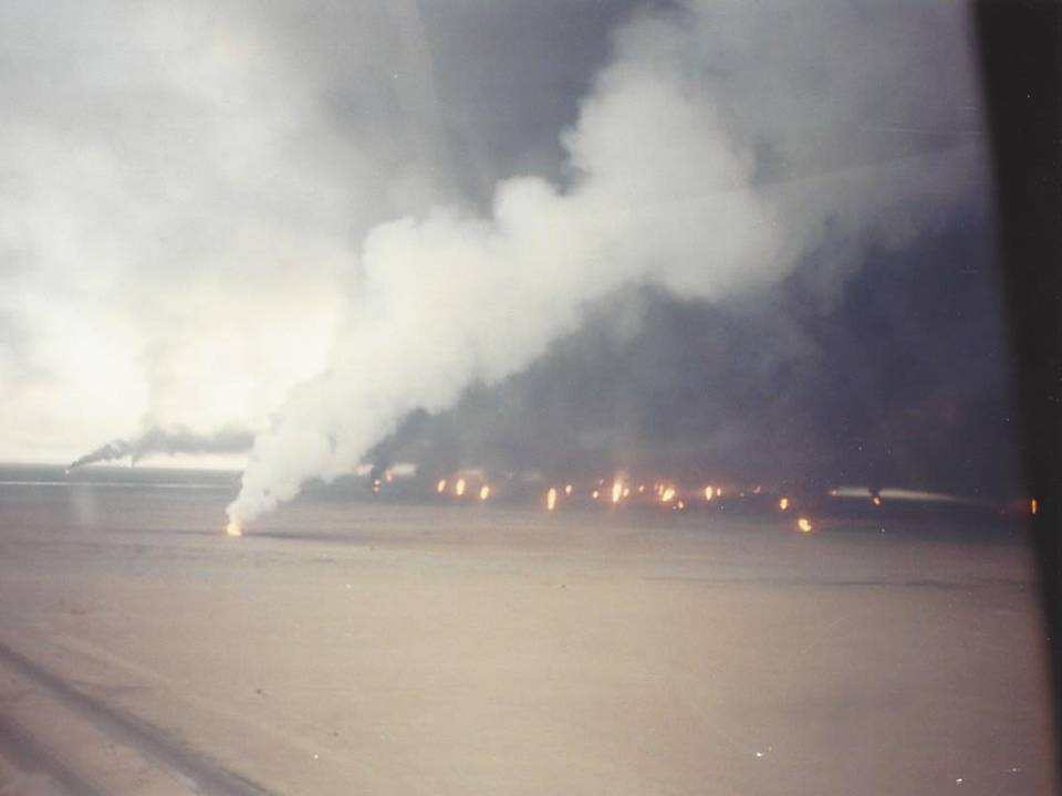 Photo was taken from inside a UH-60 Blackhawk